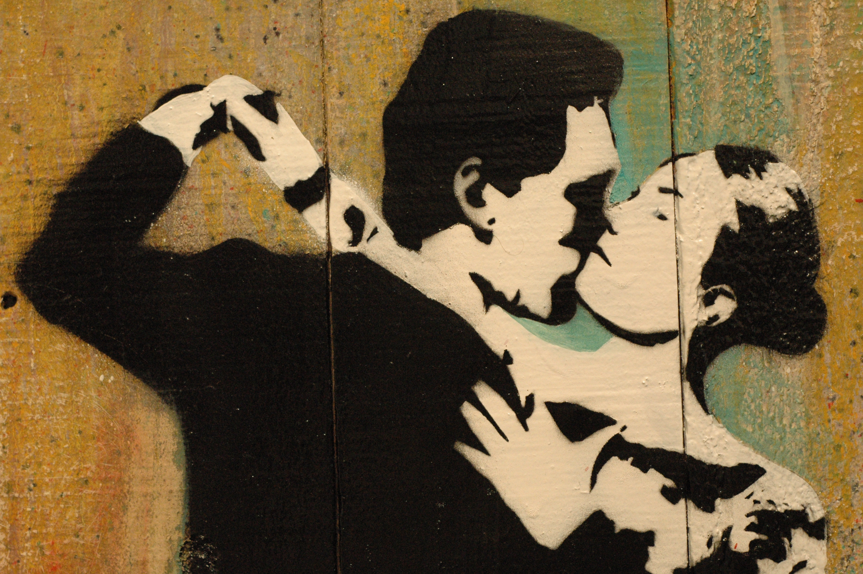 Blek le Rat - "Last Tango in Paris" at 941 Geary Gallery, San Francisco